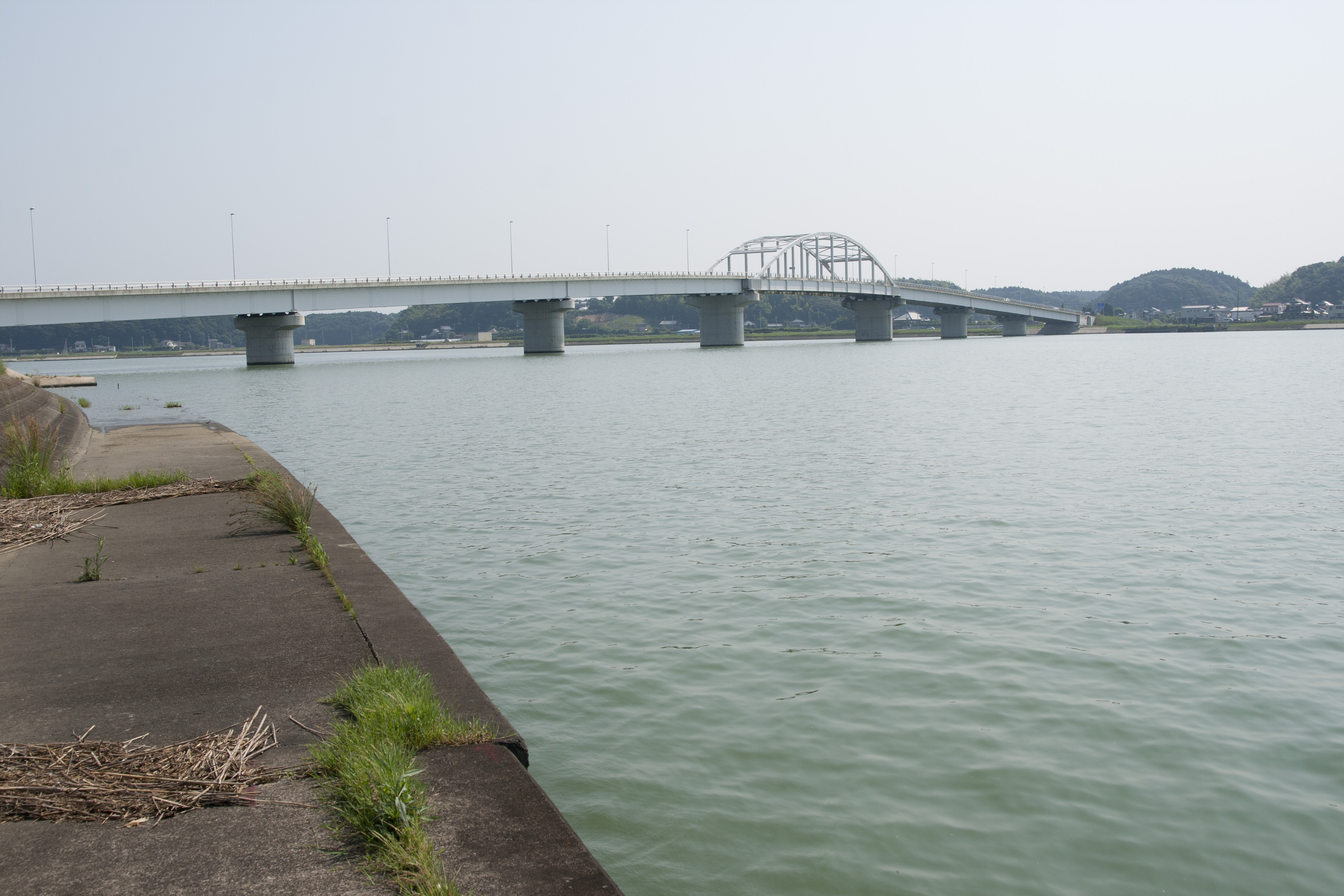 Rokko Bridge, Namegata and Hokota, Ibaraki Pref., Japan